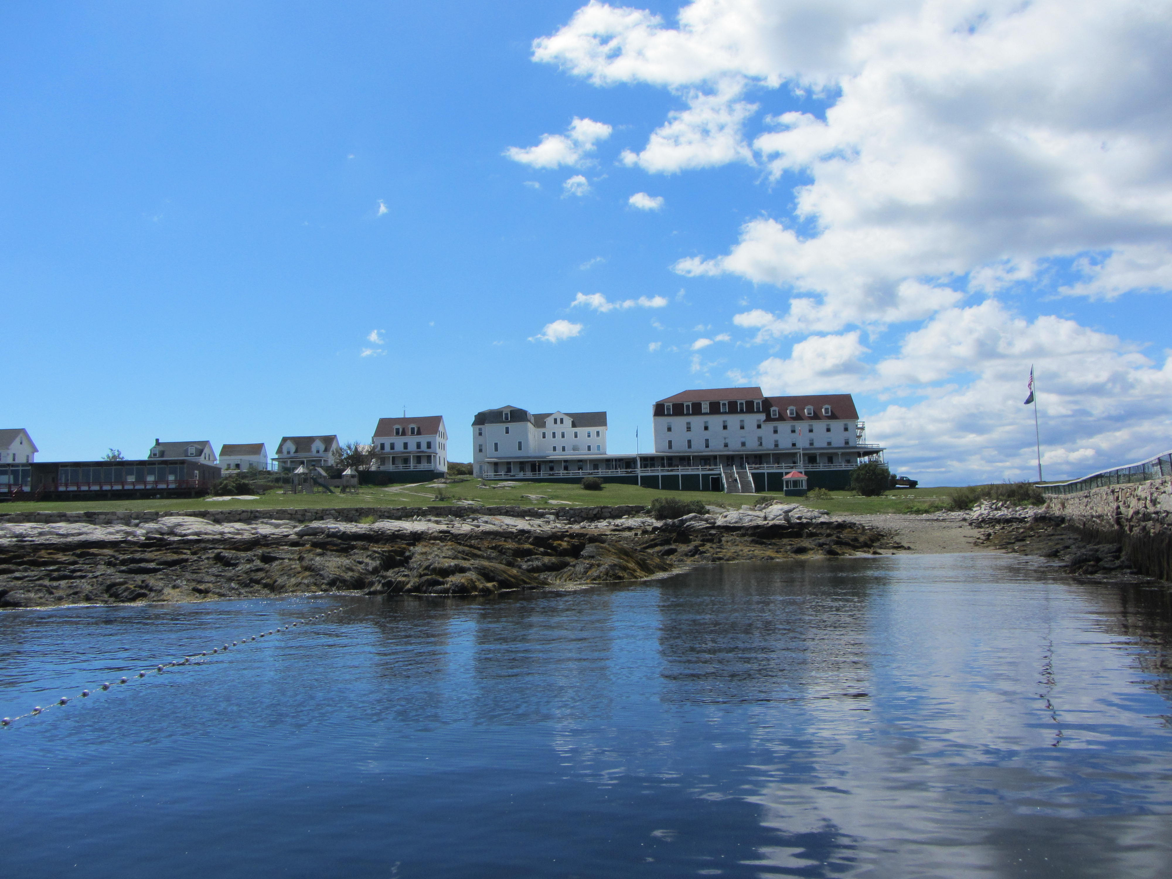 Star Island is a retreat center affilliated with the Unitarian Universalist Church and the United Church of Christ. Though the primary purpose is to host retreat groups, individuals, such as ourselves can book individual accomodations.